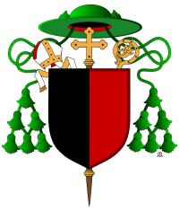 Coat of arms of Jan Adam Bernhard, Bishop of Litoměřice